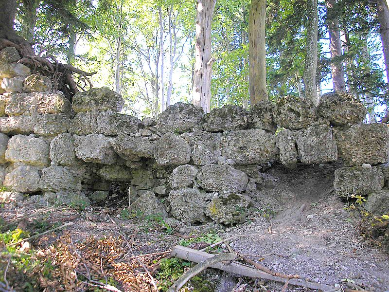 Ettensberg castle ruin (Blaichach, Landkreis Oberallgäu, Bavaria, Germany. The north eastern part of the castle ruins, seen from the east